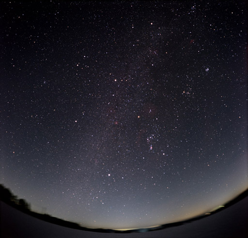 The winter night sky from the Swabian Alb